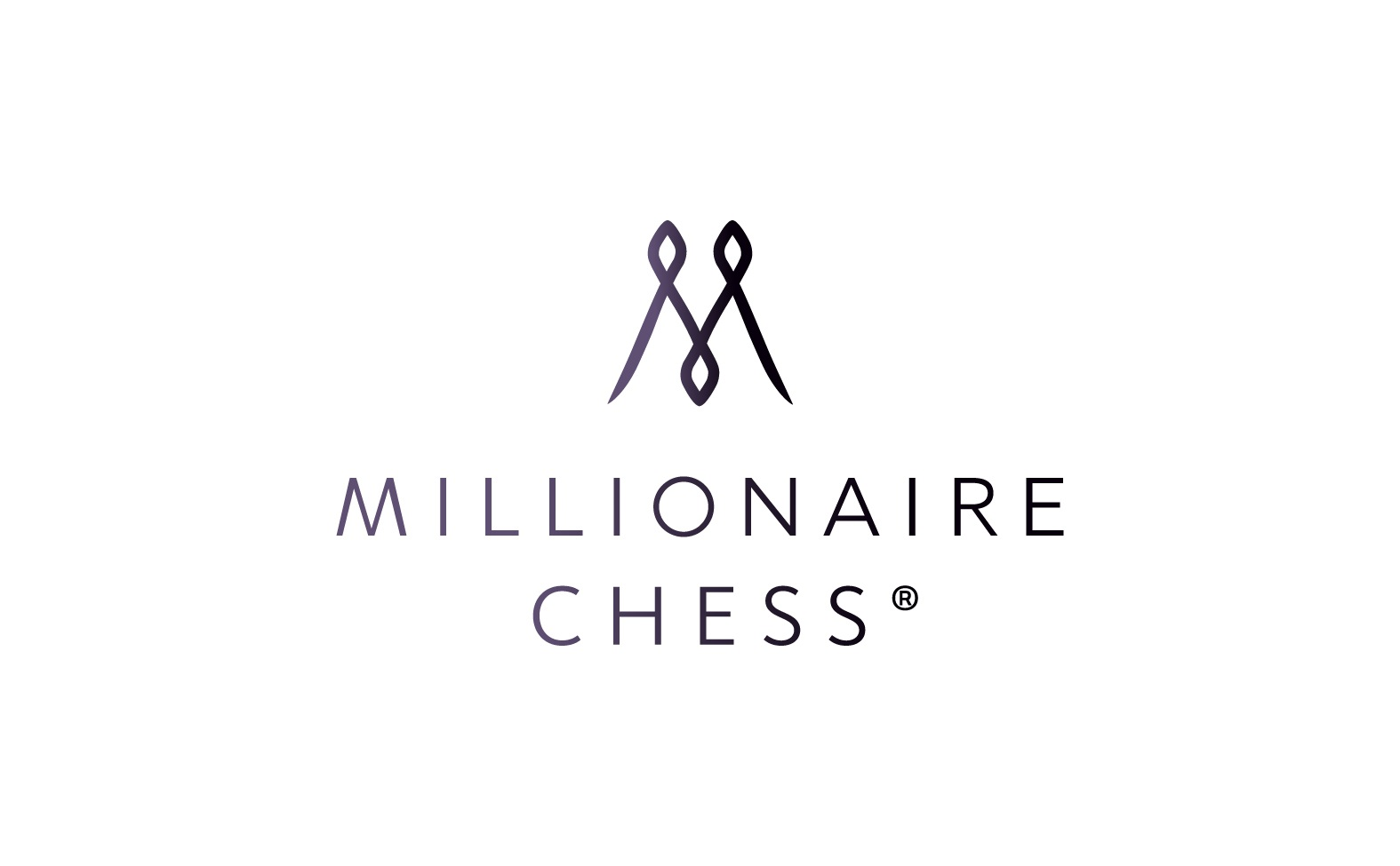 Millionaire Chess